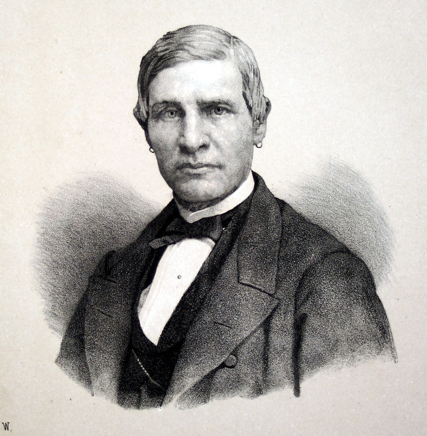 Portrait of Carl Oscar Öberg from the book "Svenska industriens män" (1875)